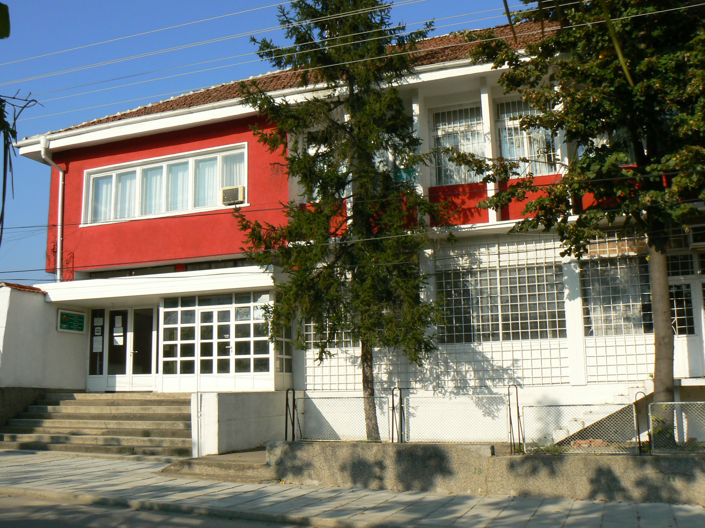 Forestry office in Parvomay village, Blagoevgrad District, Bulgaria